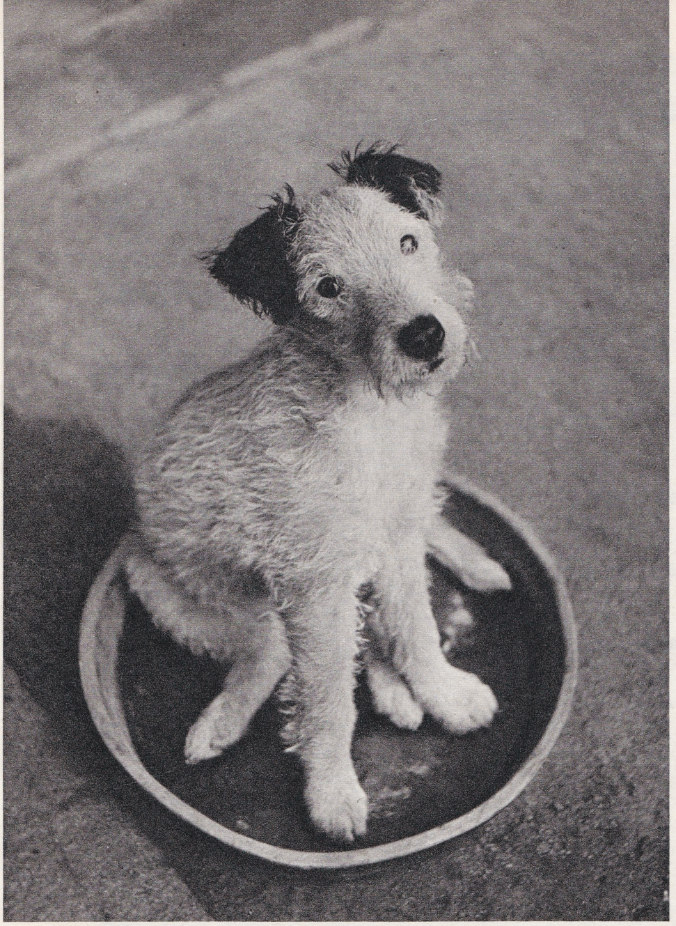 A photograph by Karel Čapek from the book "Dášeňka"